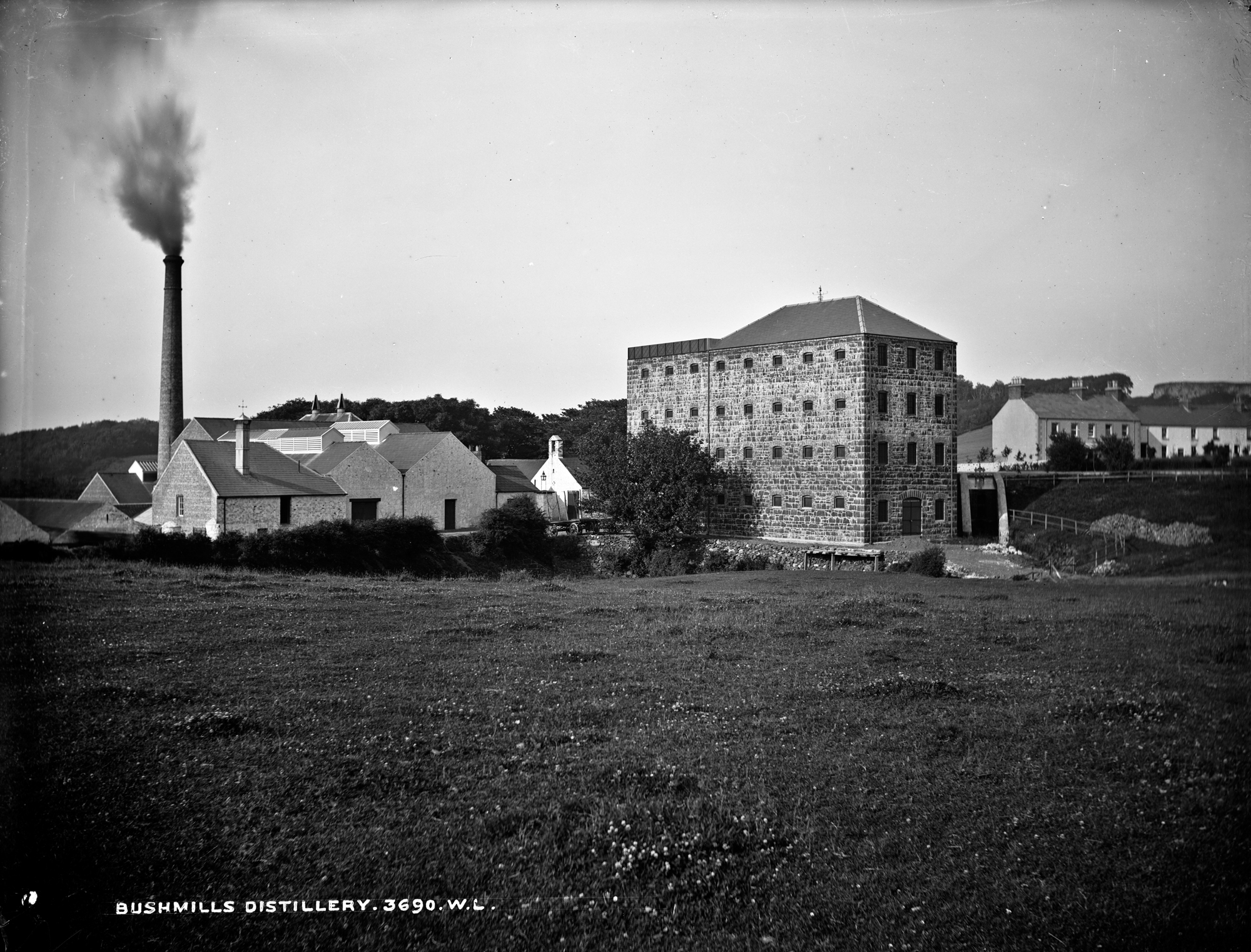 A simple description for an old image of one of the Irelands and the worlds most famous distilleries! Bushmills! The name speaks for itself! What a nice photograph to warm the heart on this very cold Spring day. The Old Bushmills Distillery is a distillery in Bushmills, County Antrim, Northern Ireland. As of December 2014, it was in the process of transitioning from ownership by Diageo plc to Jose Cuervo. All of the whiskey bottled under the Bushmills whiskey brand is produced at the Bushmills Distillery and uses water drawn from Saint Columb's Rill, which is a tributary of the River Bush. The distillery is a popular tourist attraction, with around 120,000 visitors per year. The company that originally built the distillery was formed in 1784, although the date 1608 is printed on the label of the brand – referring to an earlier date when a royal licence was granted to a local landowner to distil whiskey in the area. After various periods of closure in its subsequent history, the distillery has been in continuous operation since it was rebuilt after a fire in 1885. Photographer: Robert French (Uploader's note- French was a commercial photographer, retired in 1917. Collection: Lawrence Photograph Collection Date: between ca. 1865-1914 NLI Ref: L_ROY_03690 You can also view this image, and many thousands of others, on the NLI’s catalogue at